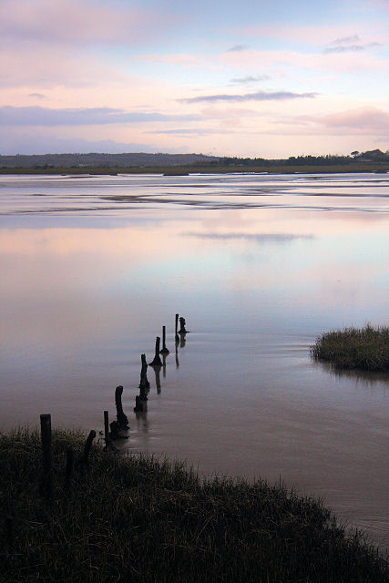 River Fergus Estuary An old fence extends into the estuary at Ing. The clouds are reflected in the shiny ooze at low water.